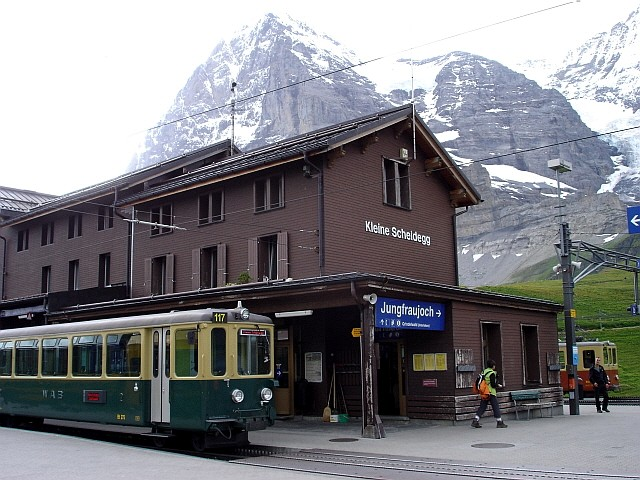 Kleine Scheidegg